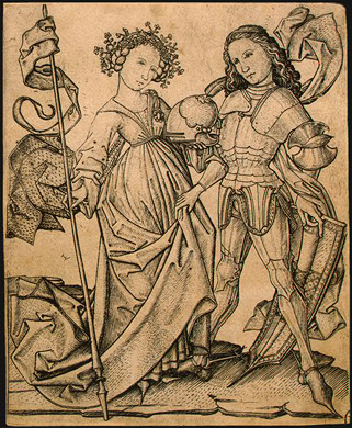 The Knight and the Lady, engraving, sheet: 13.9 x 11.3 cm (5 1/2 x 4 7/16 in.), Ritter und Dame mit Helm und Lanze, L.212